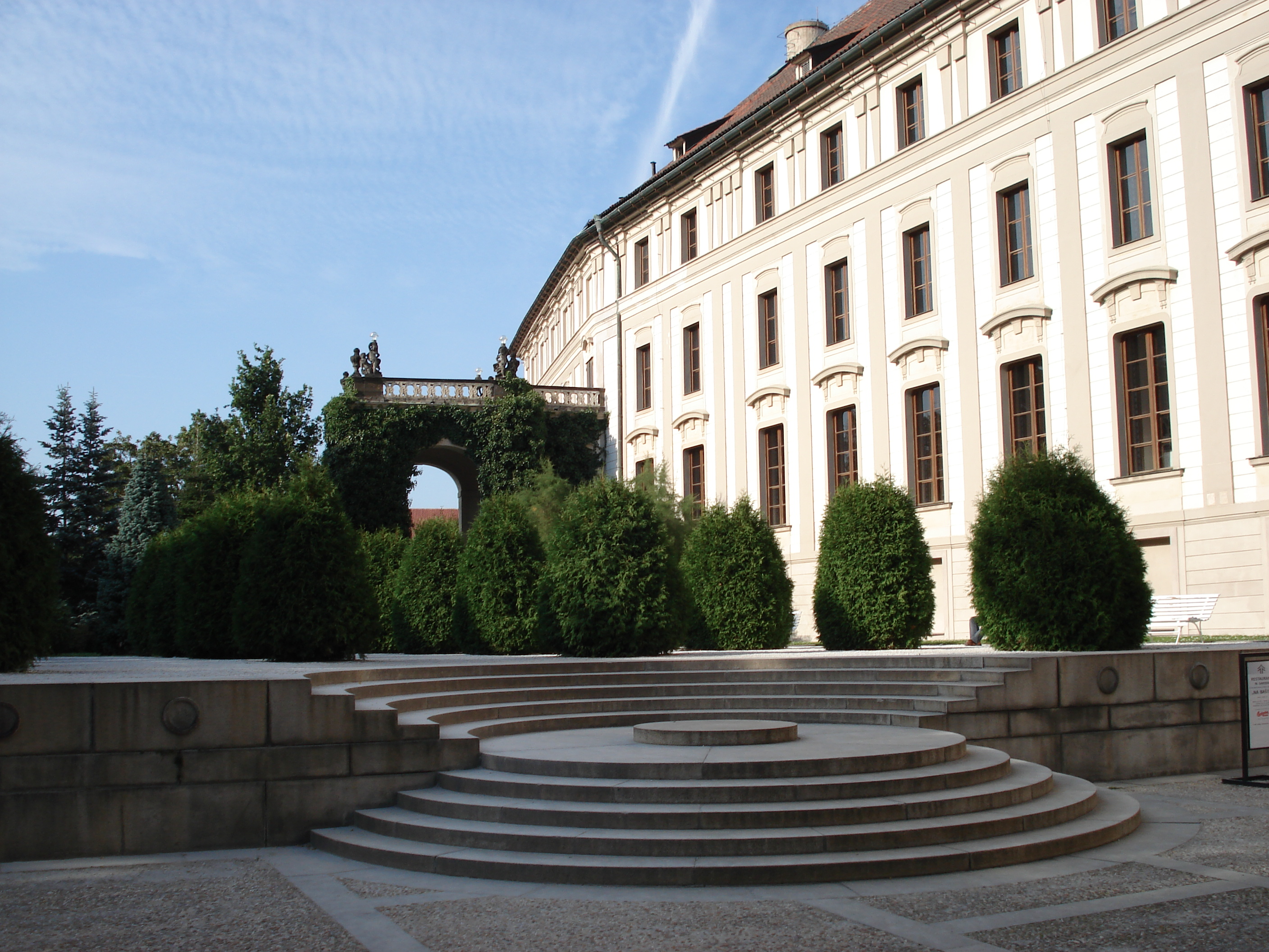 Prague Castle, garden on the bastion